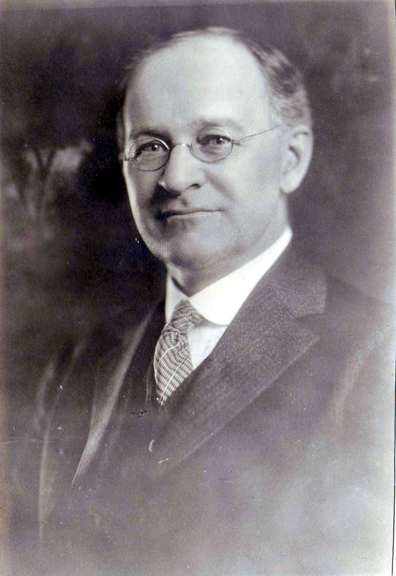 Passed down photo of John Fillmore Hayford.